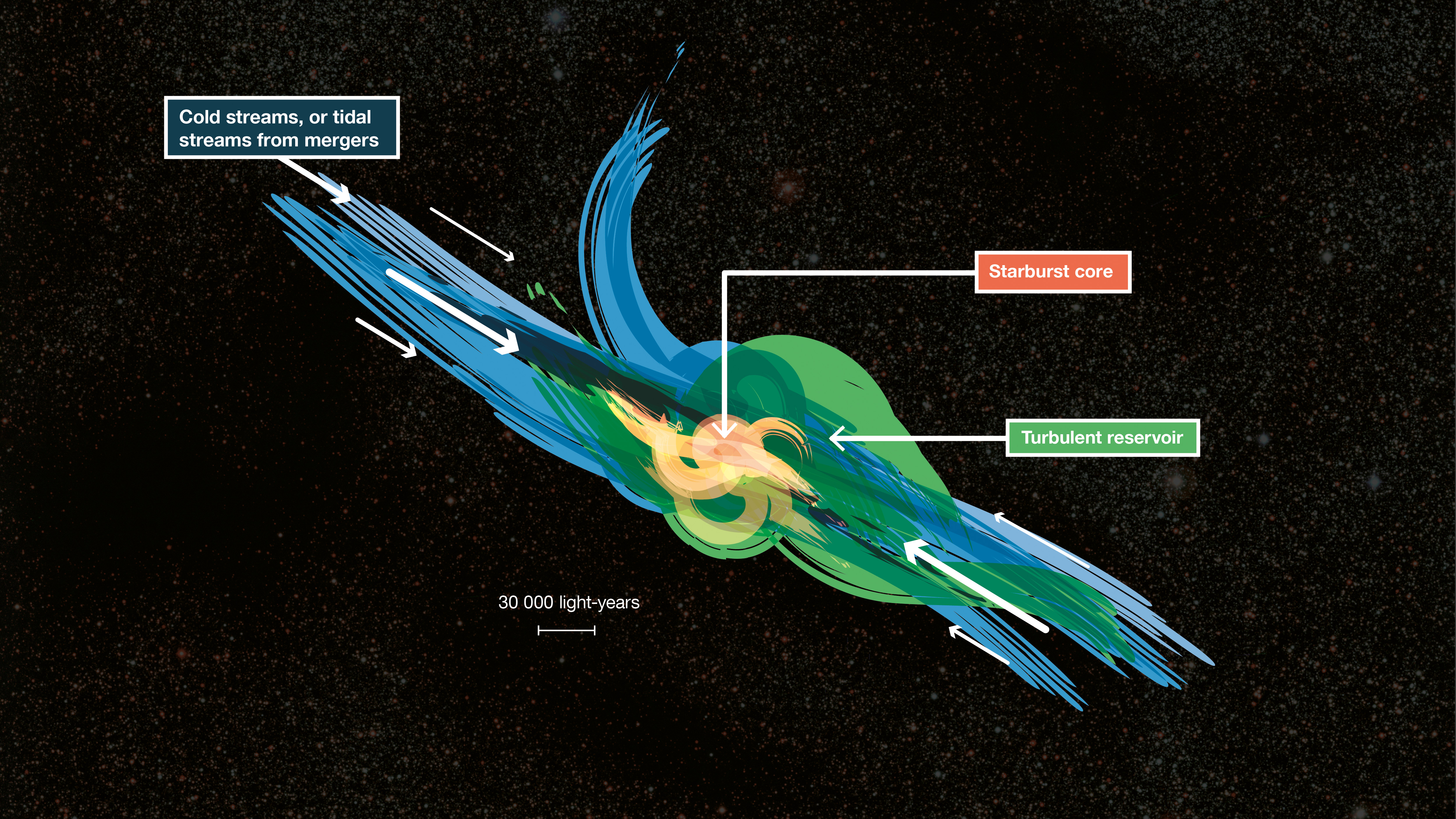 This cartoon shows how gas falling into distant starburst galaxies ends up in vast turbulent reservoirs of cool gas extending 30 000 light-years from the central regions. ALMA has been used to detect these turbulent reservoirs of cold gas surrounding similar distant starburst galaxies. By detecting CH+ for the first time in the distant Universe, this research opens up a new window of exploration into a critical epoch of star formation.